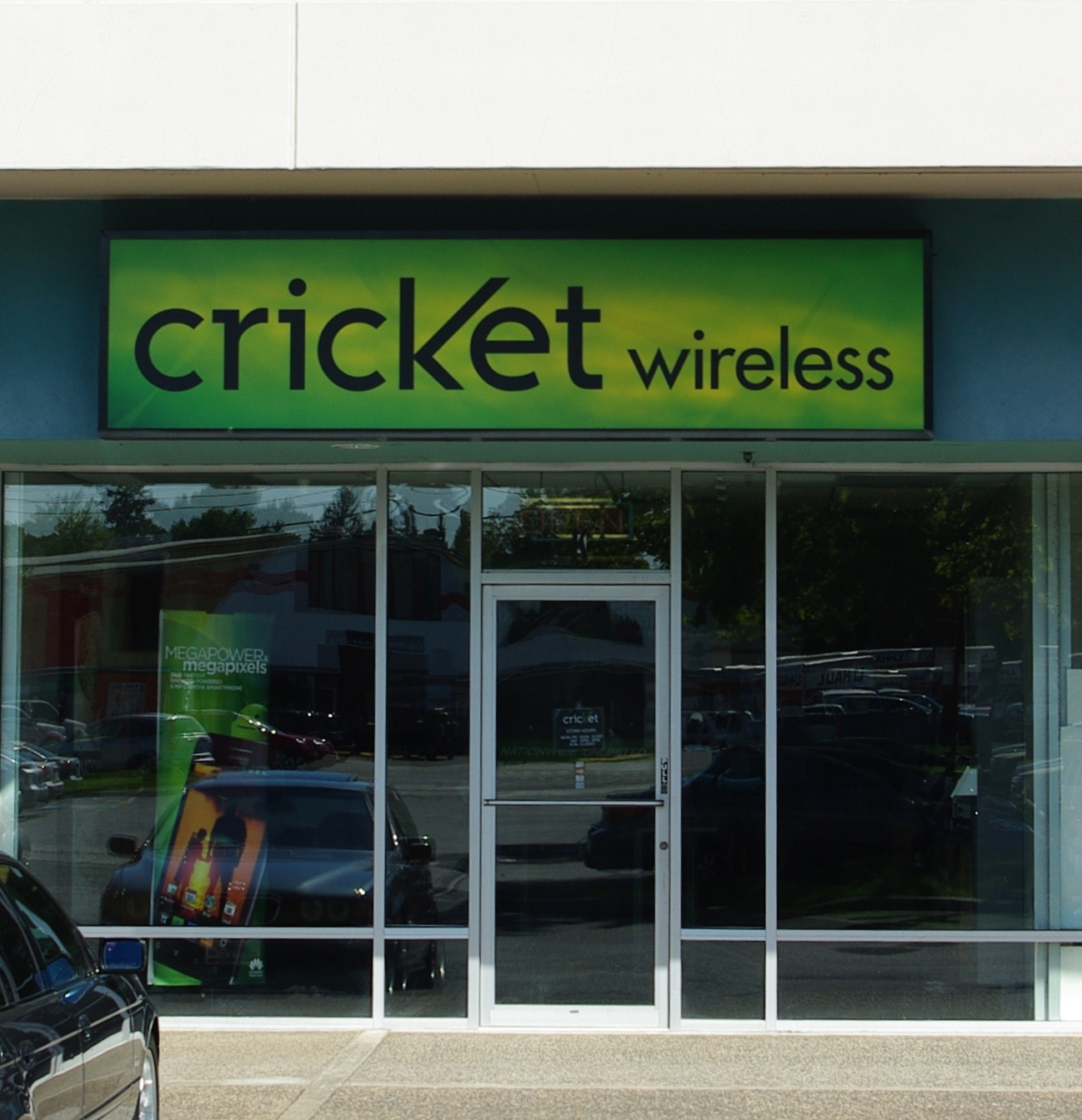 Cricket Wireless shop in Hillsboro, Oregon.